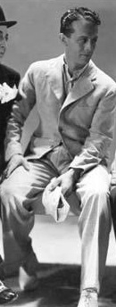 Iván Caseros- actor y periodista